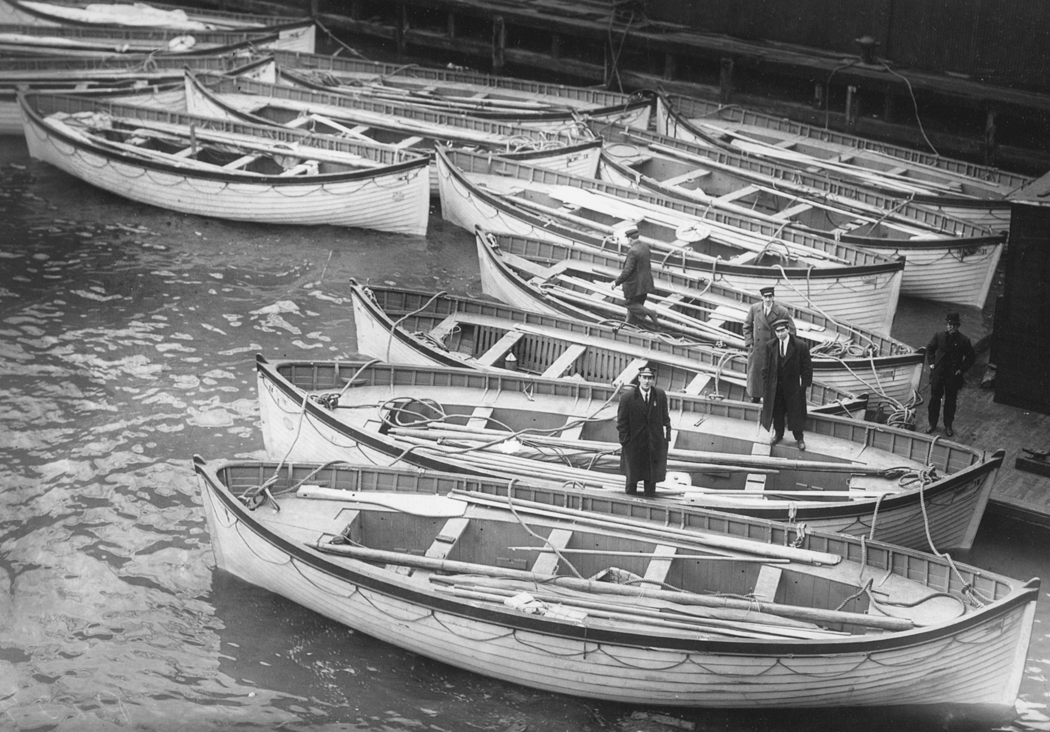 Titanic's Lifeboats at The White Star Lines Pier 54 in NYC after Sinking